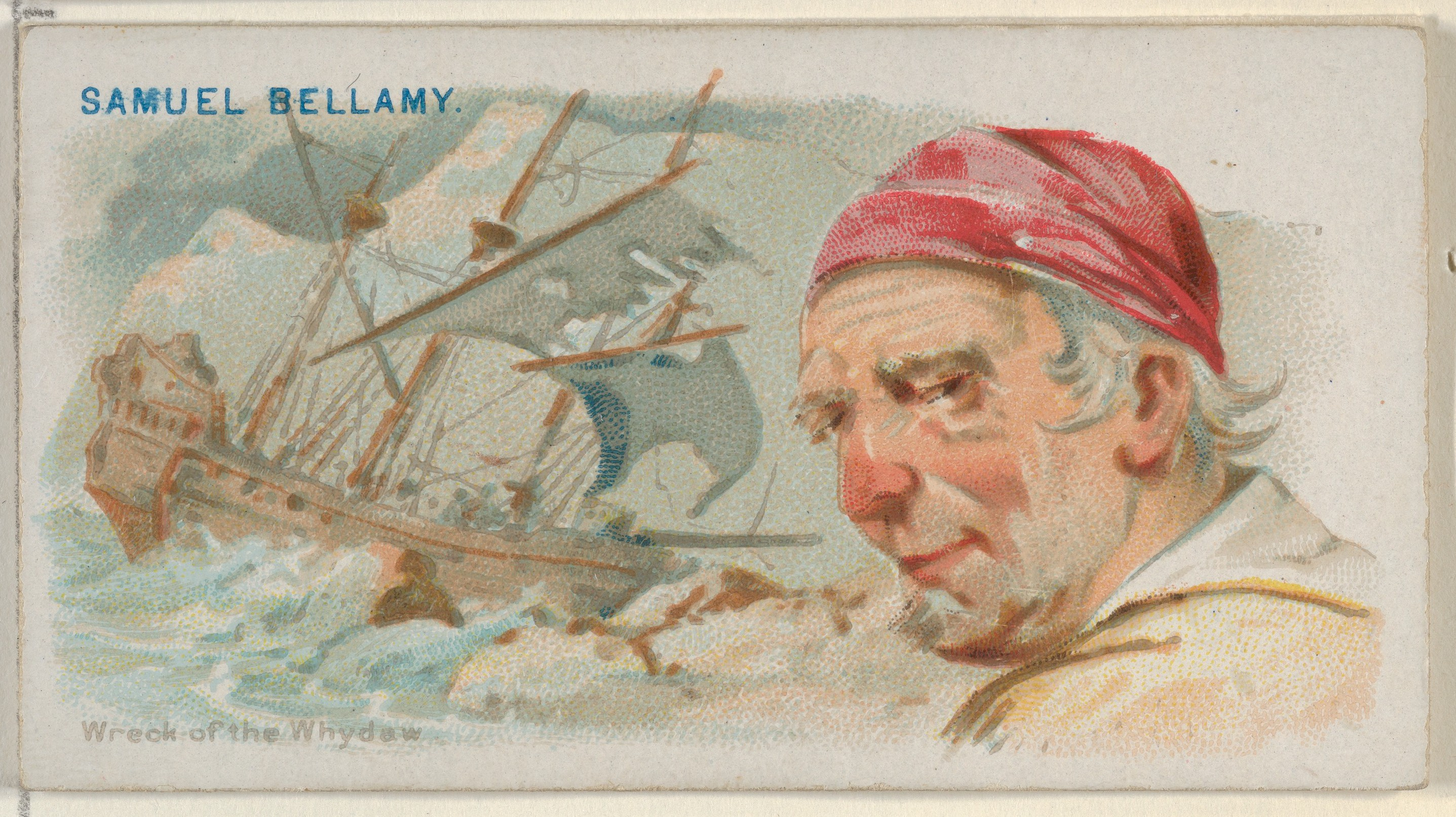 Print; Prints